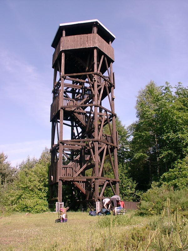 Tower on Mount Schindhübel in the Palatinate Forest